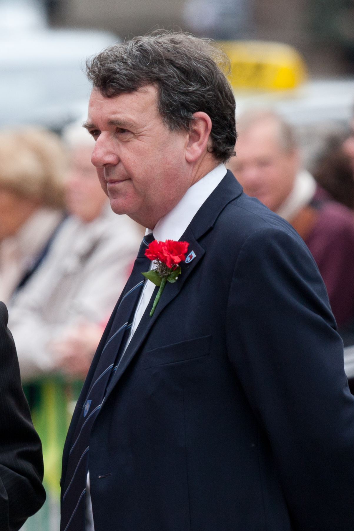 Deputy Sean Power, in St. Helier, Jersey.